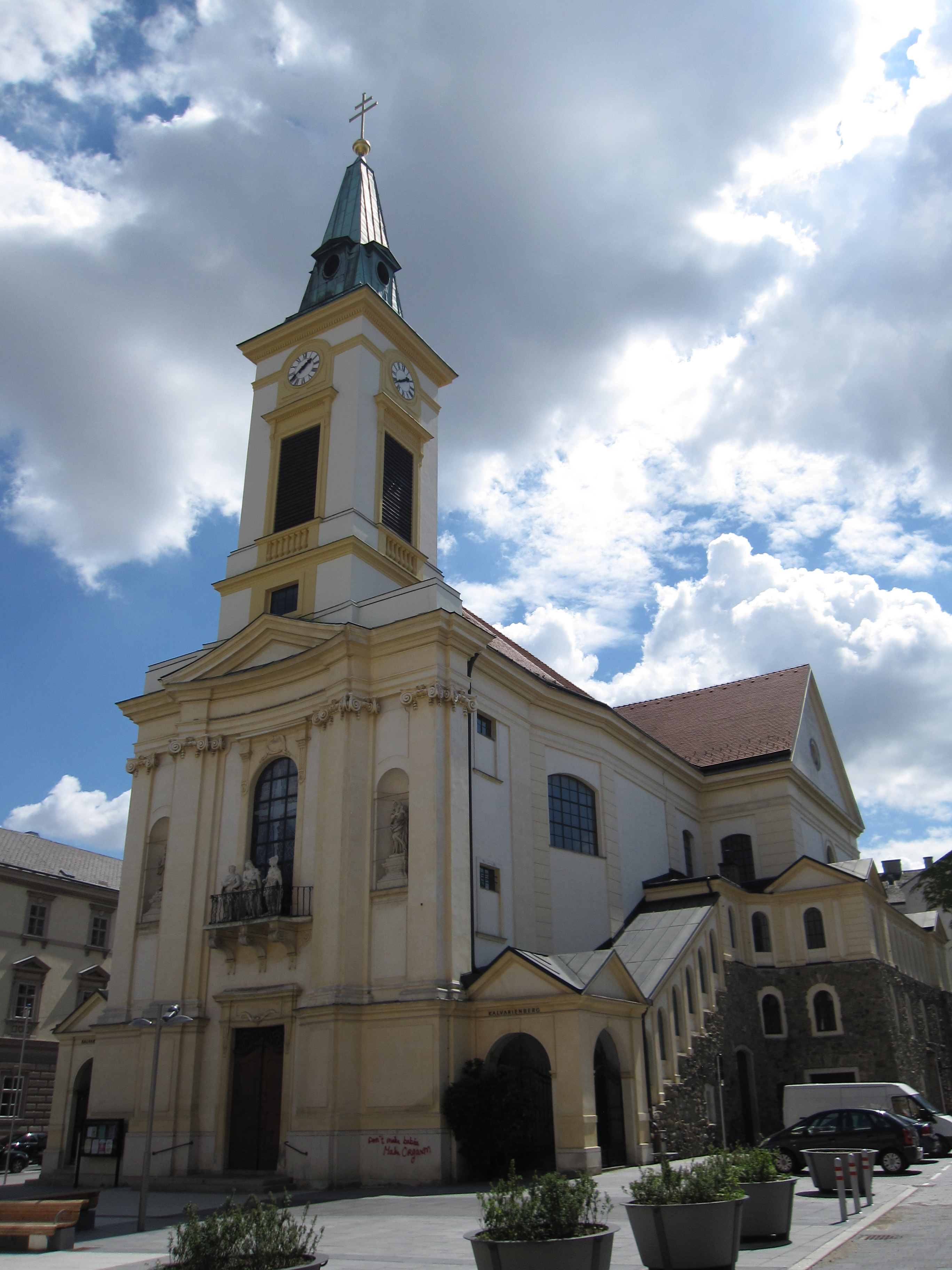 Calvary Church in Hernals, Vienna.